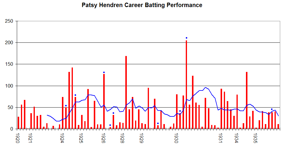 This graph details the Test Match performance of Patsy Hendren. It was created by Raven4x4x. The red bars indicate the player's test match innings, while the blue line shows the average of the ten most recent innings at that point. Note that this average cannot be calculated for the first nine innings. The blue dots indicate innings in which Hendren finished not-out. This graph was generated with Microsoft Excel 2002, using data from Cricinfo and .au.